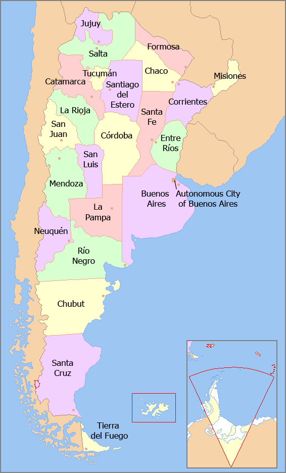 Map of the Argentine Provinces with their names in English.